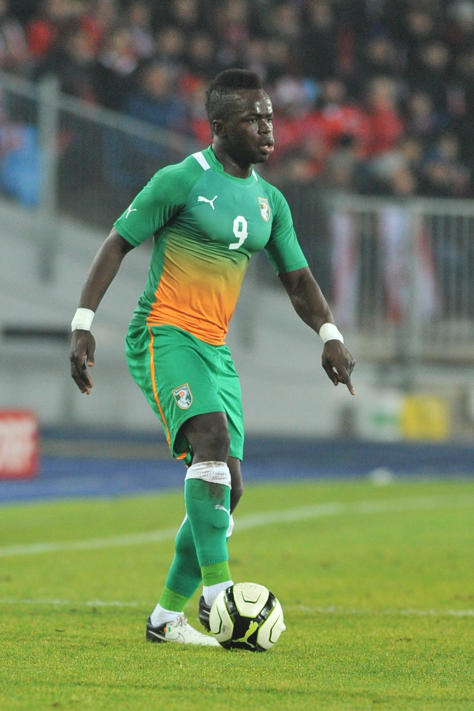 ÖFB freundschaftliches Länderspiel - Österreich vs Elfenbeinküste am 14. November 2012 The making of this work was supported by Wikimedia Austria. For other files made with the support of Wikimedia Austria, please see the category Supported by Wikimedia Österreich. Elfenbeinküste Nr. 9: Cheick Ismael Tioté